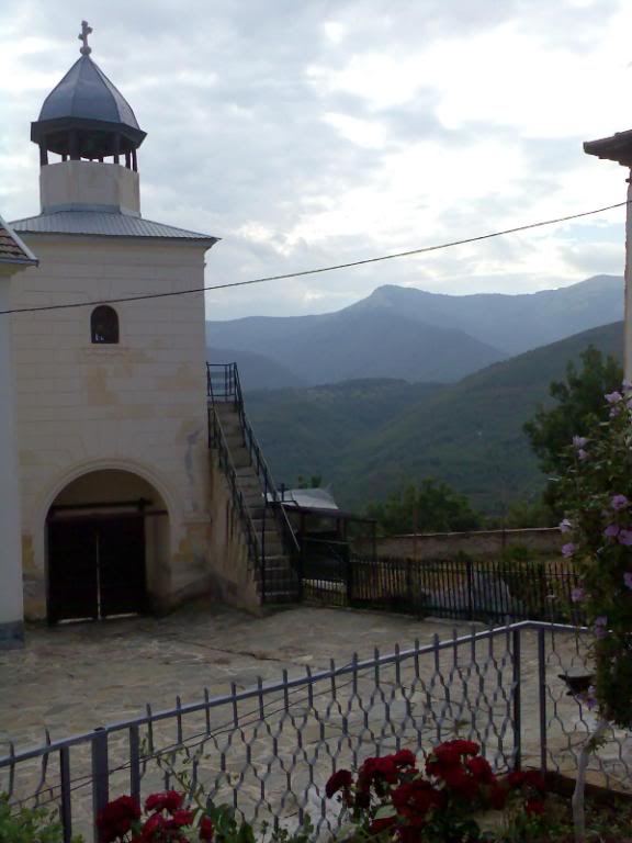 Poreche Monastery, Poreche region, Republic Macedonia